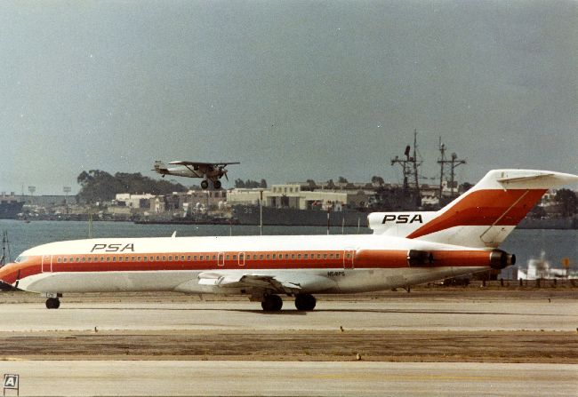 Boeing 727 at Lindbergh Field